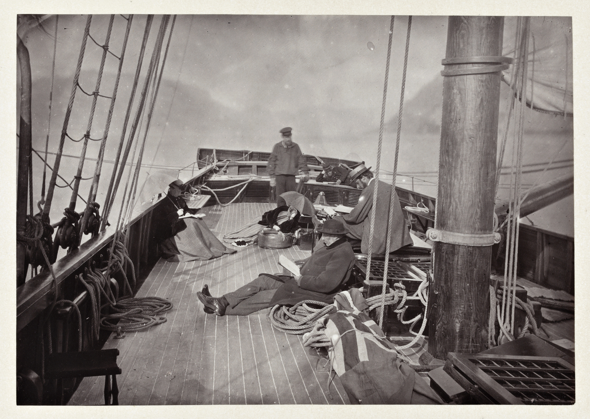 Tittel / Title: s. 81 Afternoon on Deck - Nord Fjord Motiv / Motif: Albuminkopi. Dato / Date: 1869 Fotograf / Photographer: Edward Backhouse Mounsey (1840-1911) Sted / Place: Sogn og Fjordane Eier / Owner Institution: Nasjonalbiblioteket / National Library of Norway Lenke / Link: Bildesignatur / Image Number: bldsa_Alb_BH083